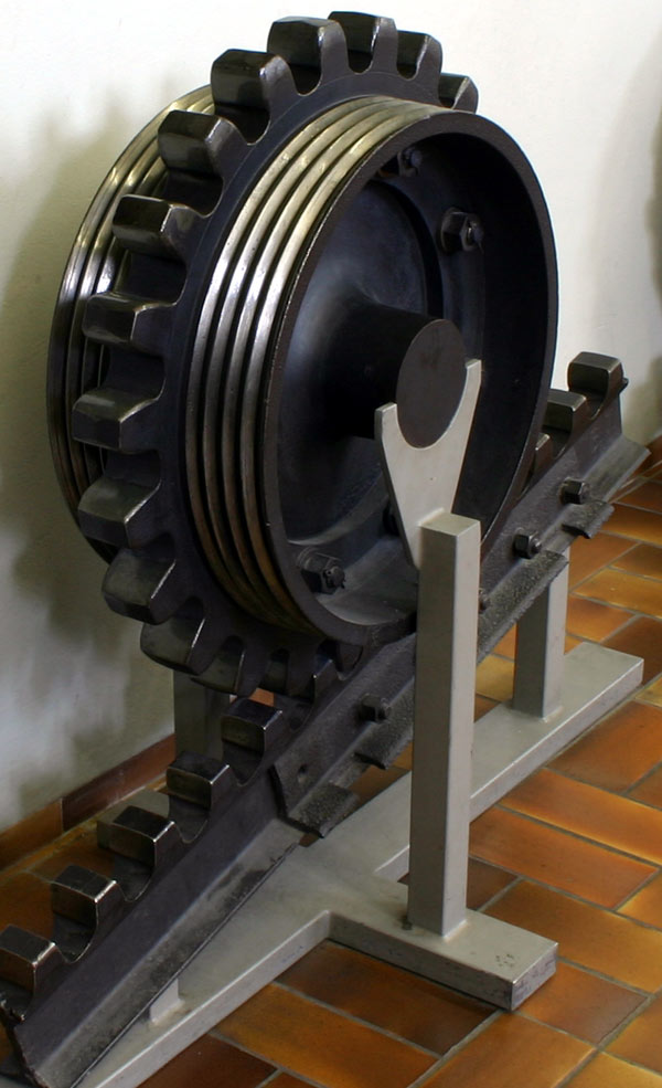 The Strub rack railway system